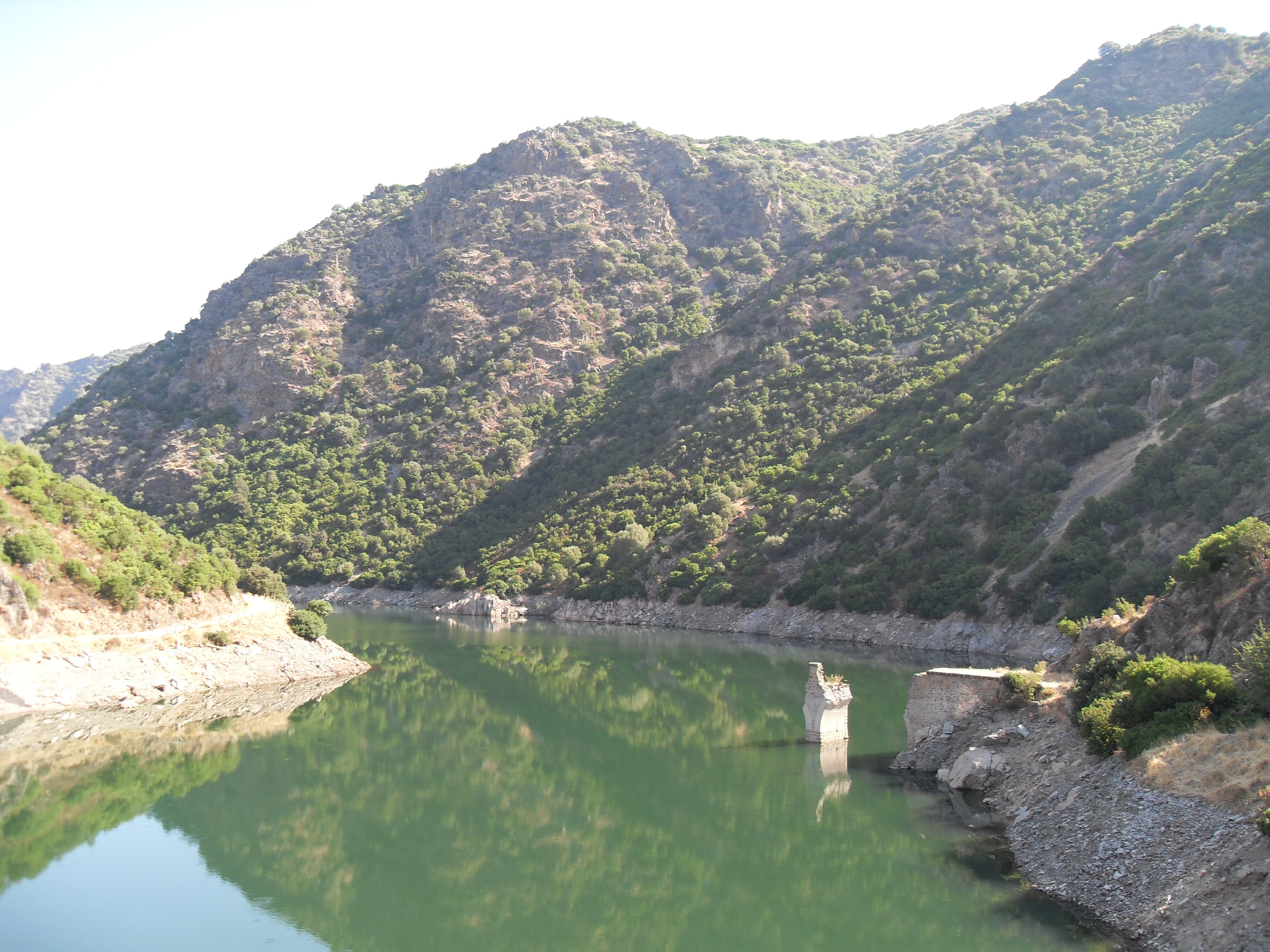 Broken bridge from the Trenino Verde